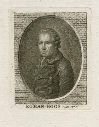 The german sculpteur Roman Anton Boos (1733-1810)